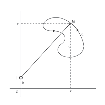 picture to explain the principle of a linear planimeteer